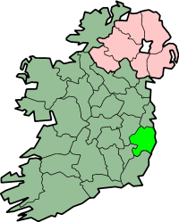 map of County Wicklow, Ireland 08:10, 5 February 2004 Morwen 200x249 (30670 bytes) (map)